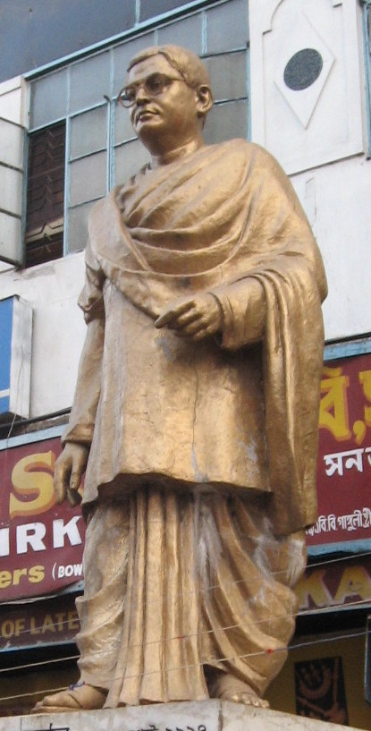 Statue of Bipin Behari Ganguly in Bowbazar